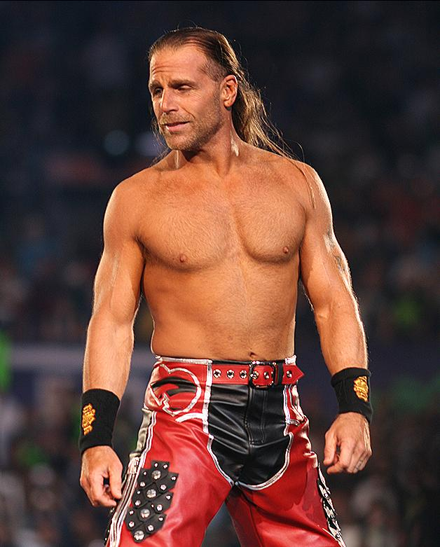 Shawn Michaels at WrestleMania XXIV